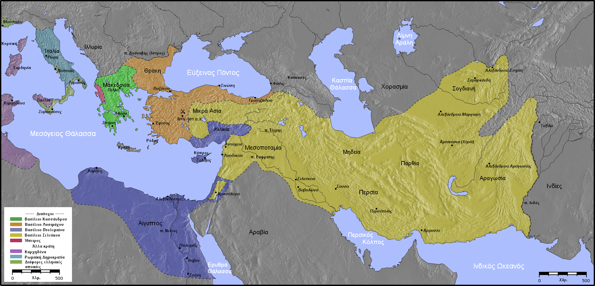 The helenistic world at 300 B.C. (in Greek)